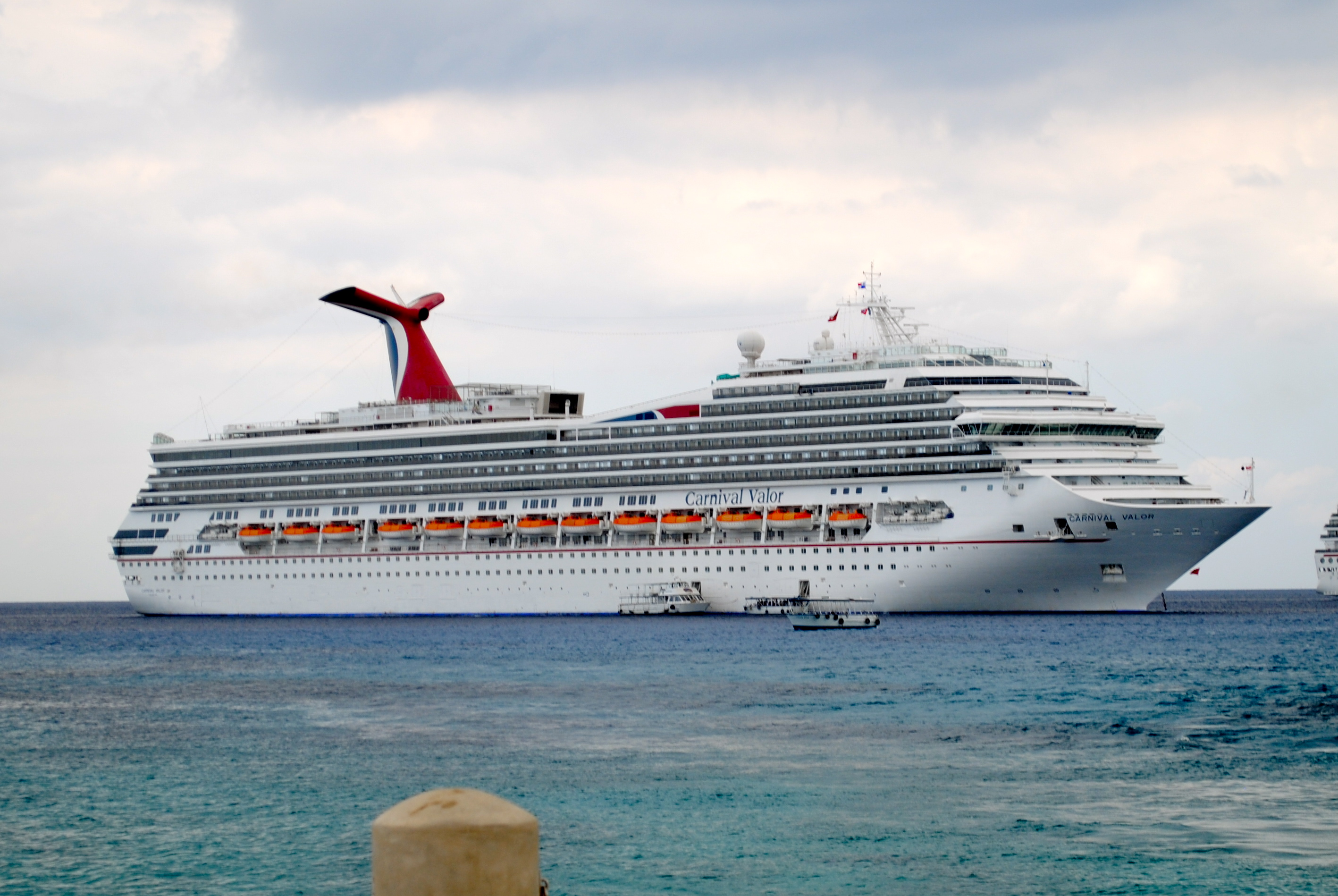 Carnival Valor at dock in Grand Cayman